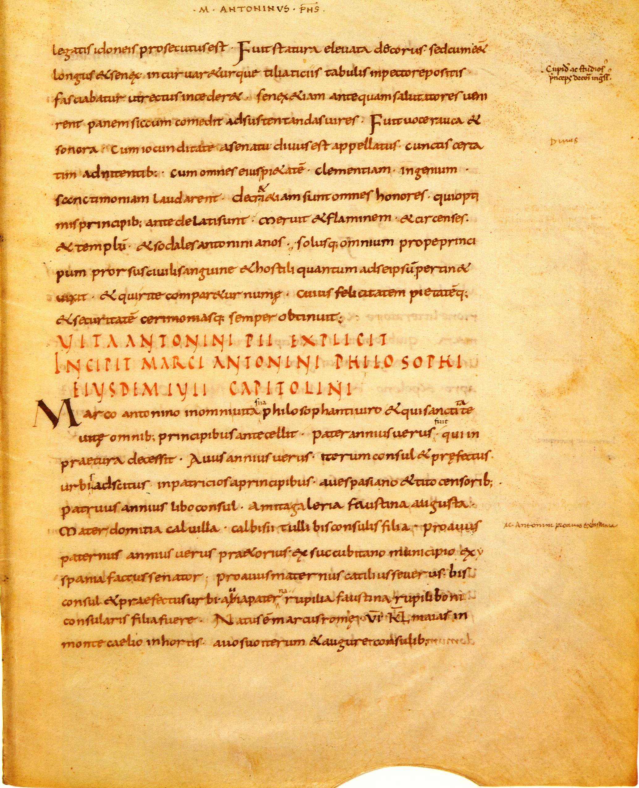 A page of the earliest manuscript of the Historia Augusta (end of the Life of Antoninus Pius und beginning of the Life of Marcus Aurelius. Above a marginal note of Petrarch who discovered the manuscript. Biblioteca Apostolica Vaticana, Vaticanus Palatinus lat. 899, fol. 19r.